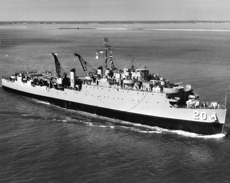 The U.S. Navy dock landing ship USS Donner (LSD-20) underway in coastal waters, circa the mid-1950s.